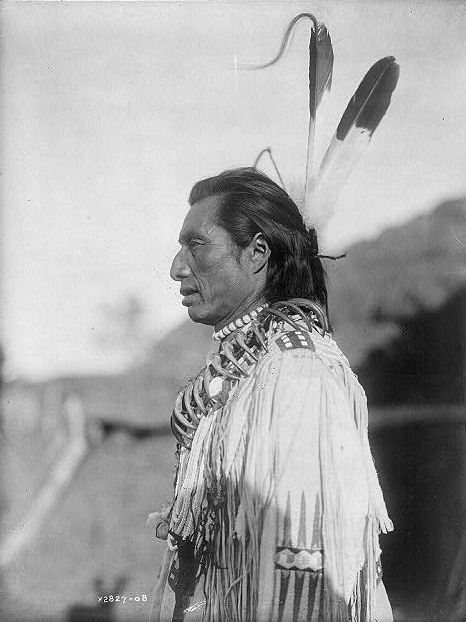 Crow's Heart, a Mandan, wearing a traditional deerhide tunic, photo by Edward Curtis, ca. 1908. From the Edward S. Curtis Collection, Library of Congress.